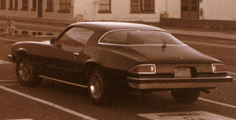 Personal Photograph 1977 Camaro